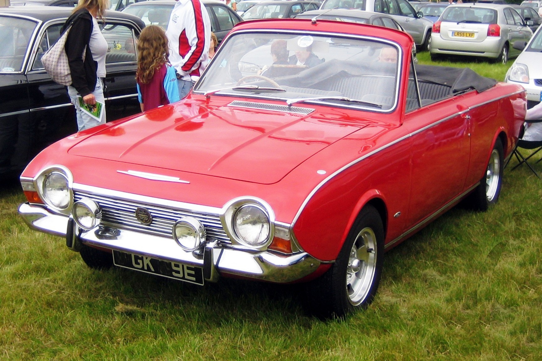 Ford Corsair V4 convertible. The in-line 4 cylinder engine was replaced with a compact V4 unit a couple of years into the production run. At the same time the name was changed from Ford Consul Corsair to Ford Corsair V4.